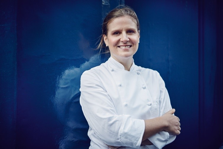 Chef Chantelle Nicholson, as photographed by Jenny Zarins in The West End, London